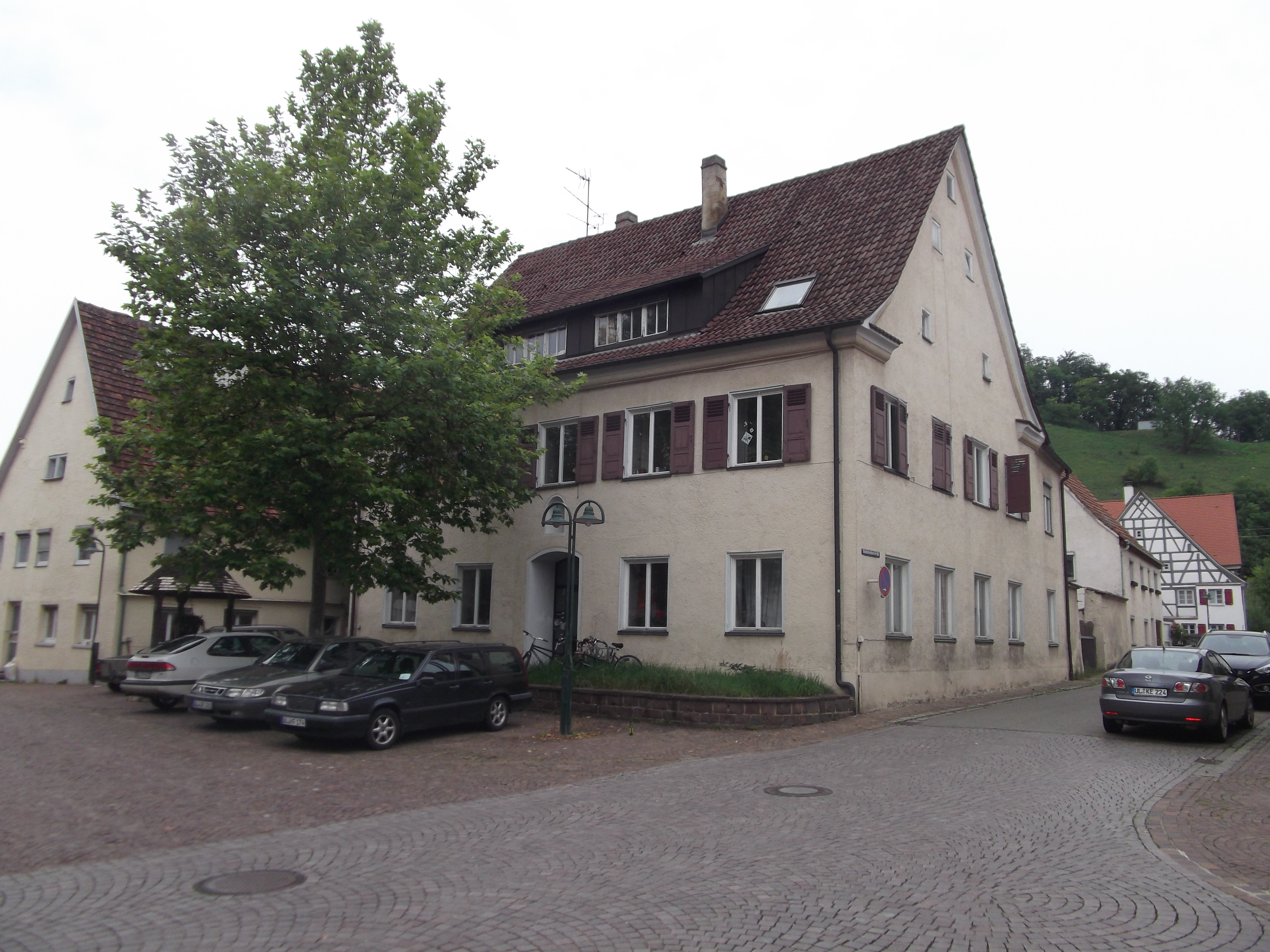 Fotograph of the "New House" in Schelklingen from the south, summer 2014